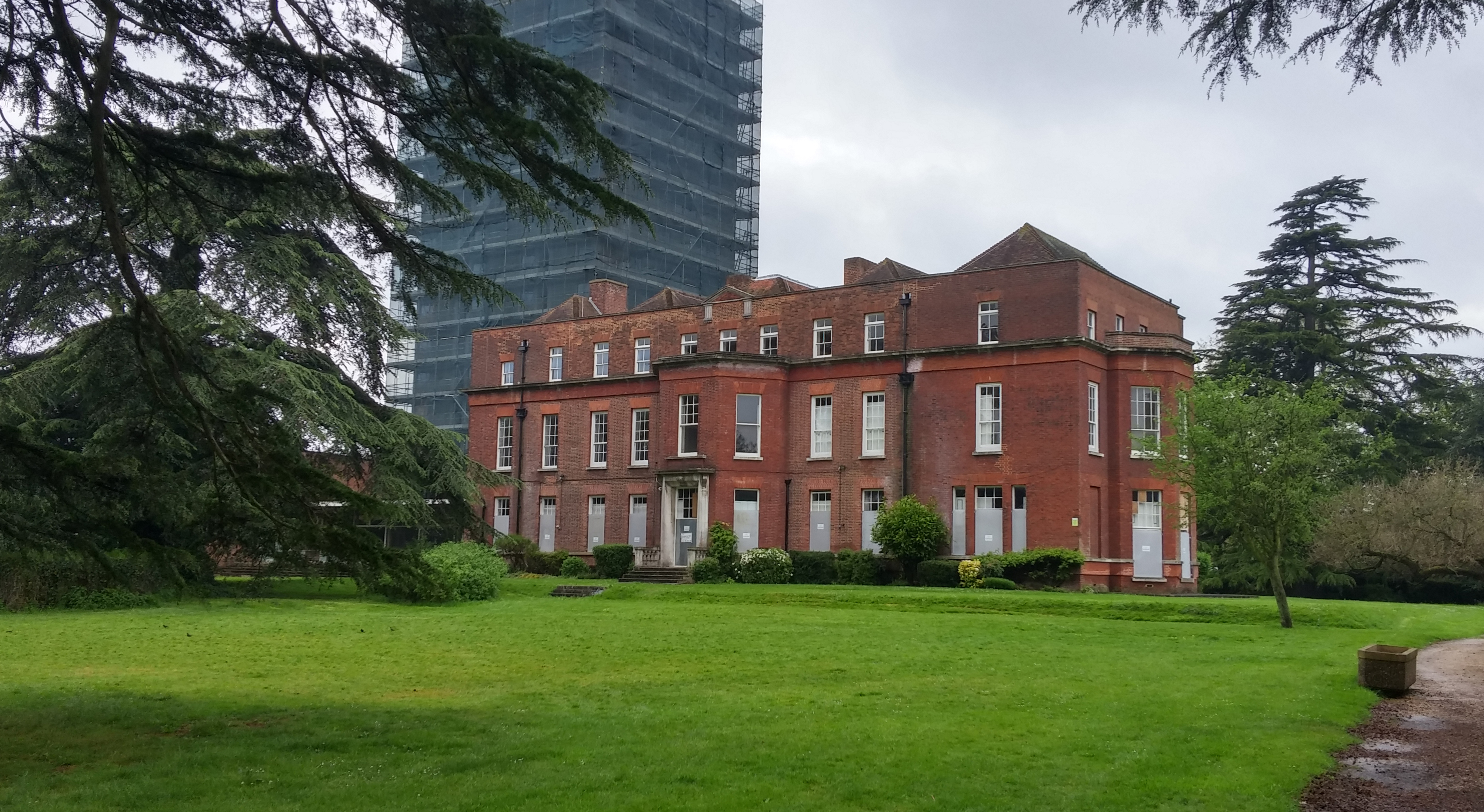 South Stoneham House in Swaythling, Southampton, England